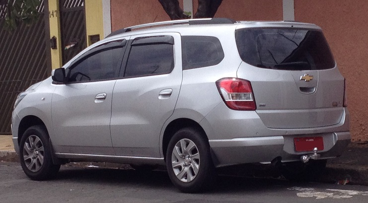 Chevrolet Spin